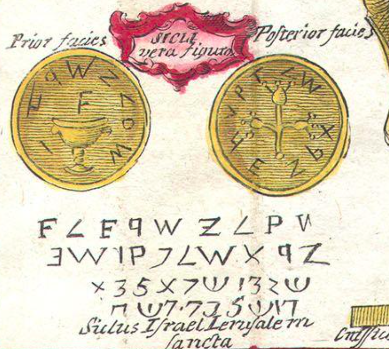 1632 sketch of First Jewish Revolt coinage